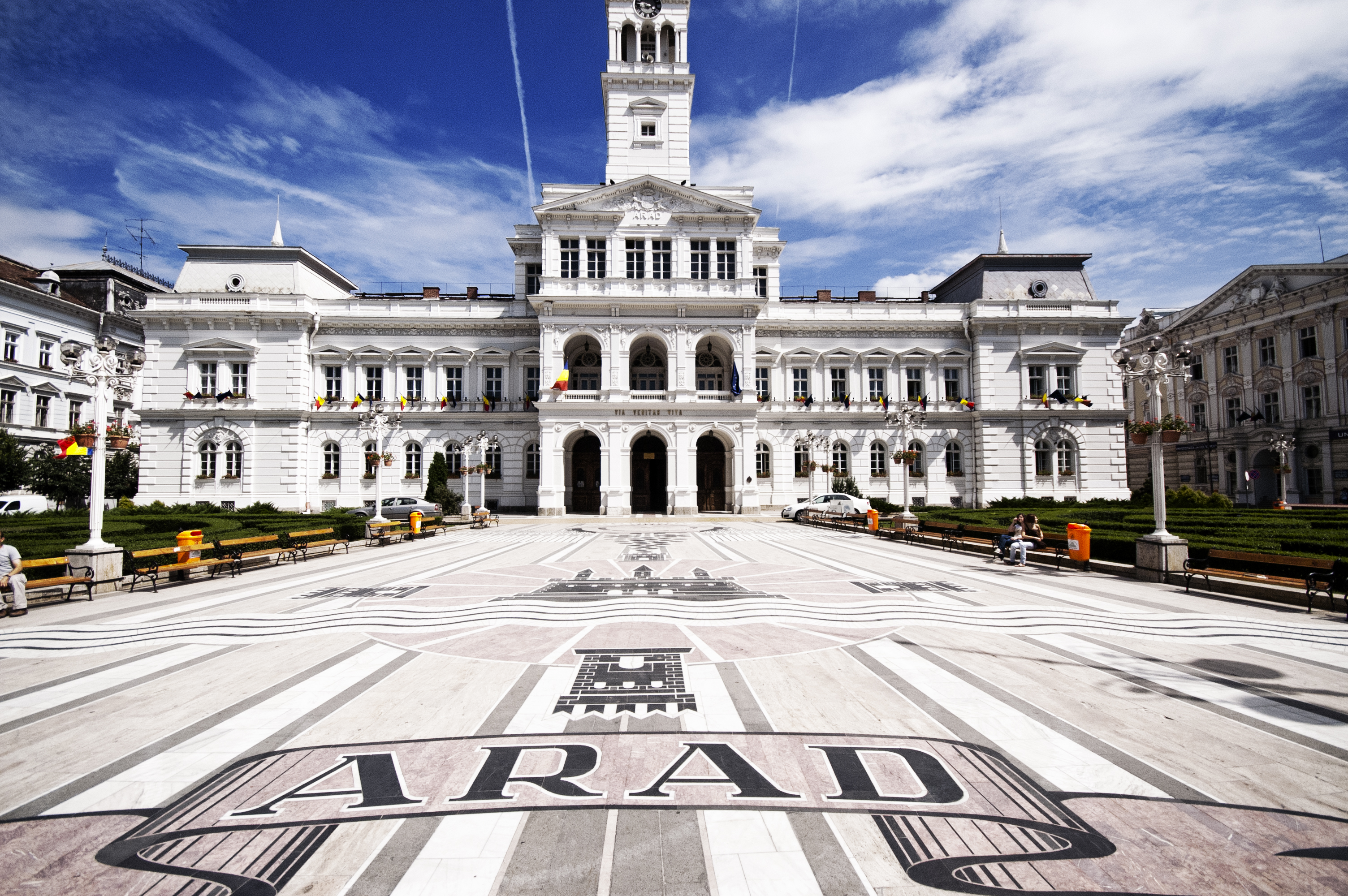 Municipality of Arad